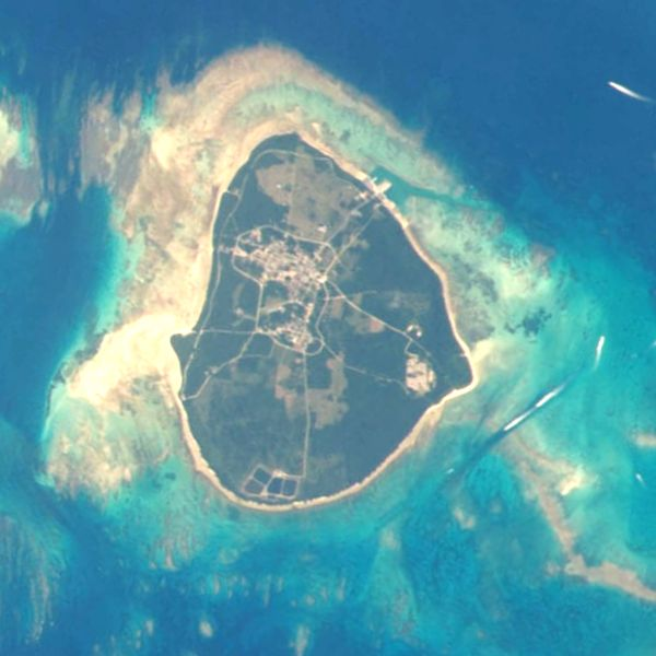 Taketomi Island, Taketomi, Okinawa prefecture, Japan.